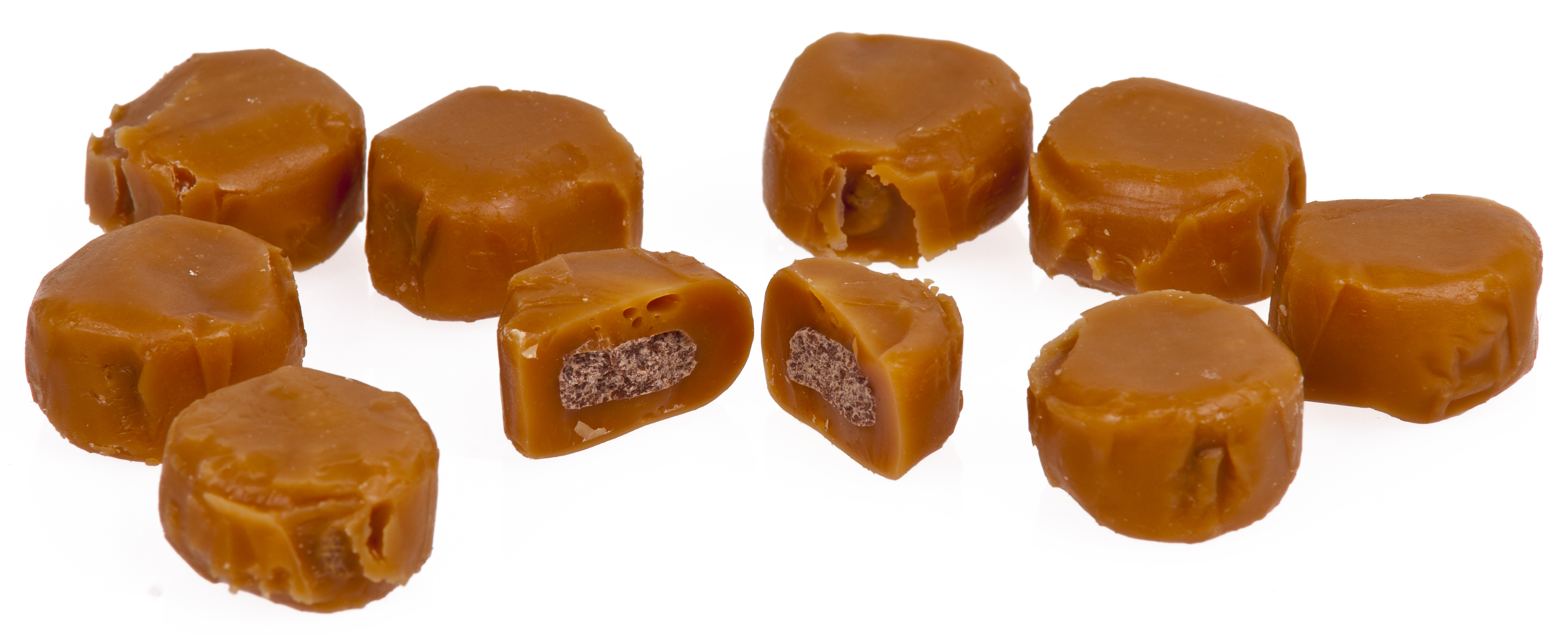 Cadbury Eclairs hard candies.